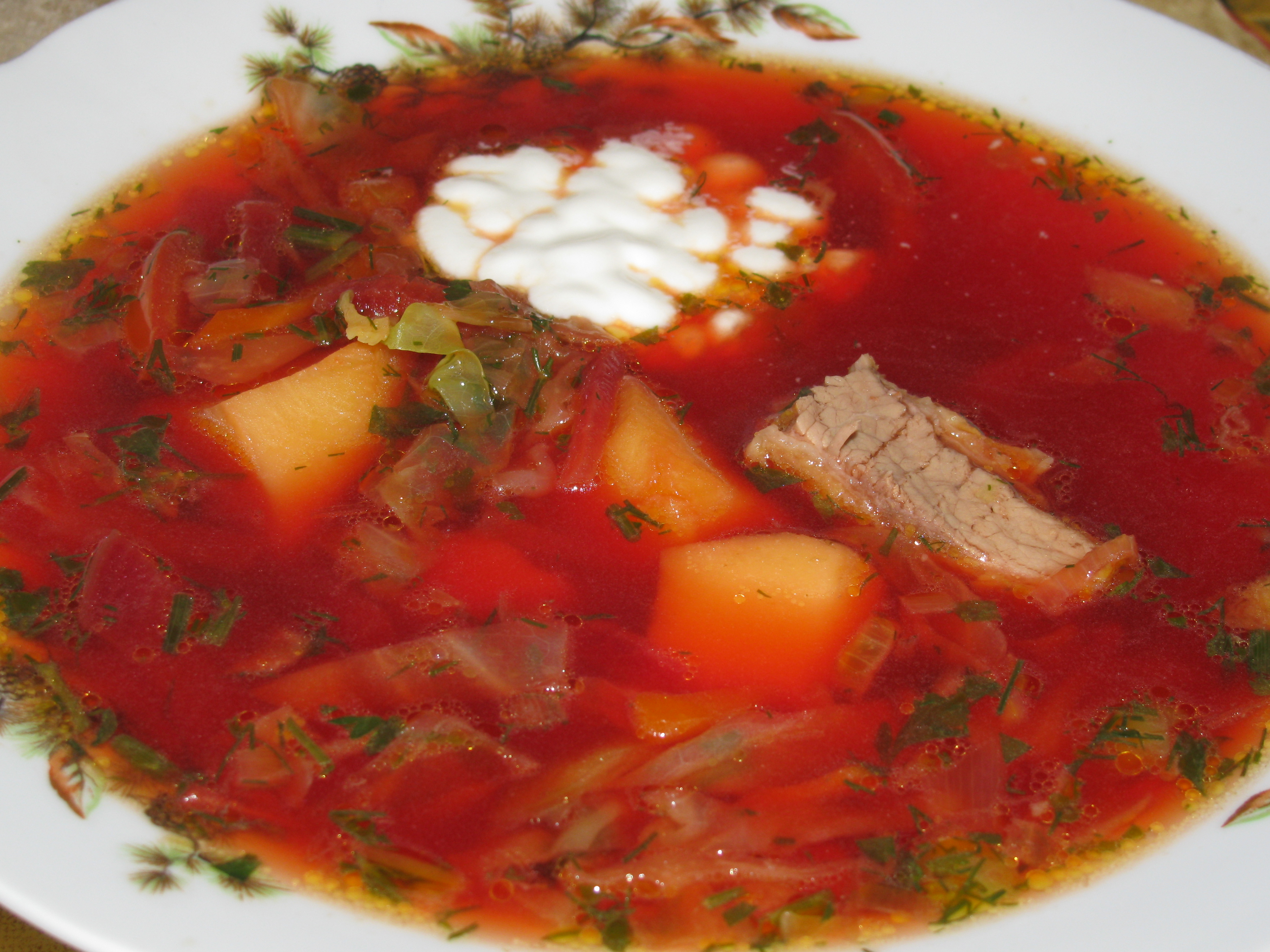 Ukrainian borscht